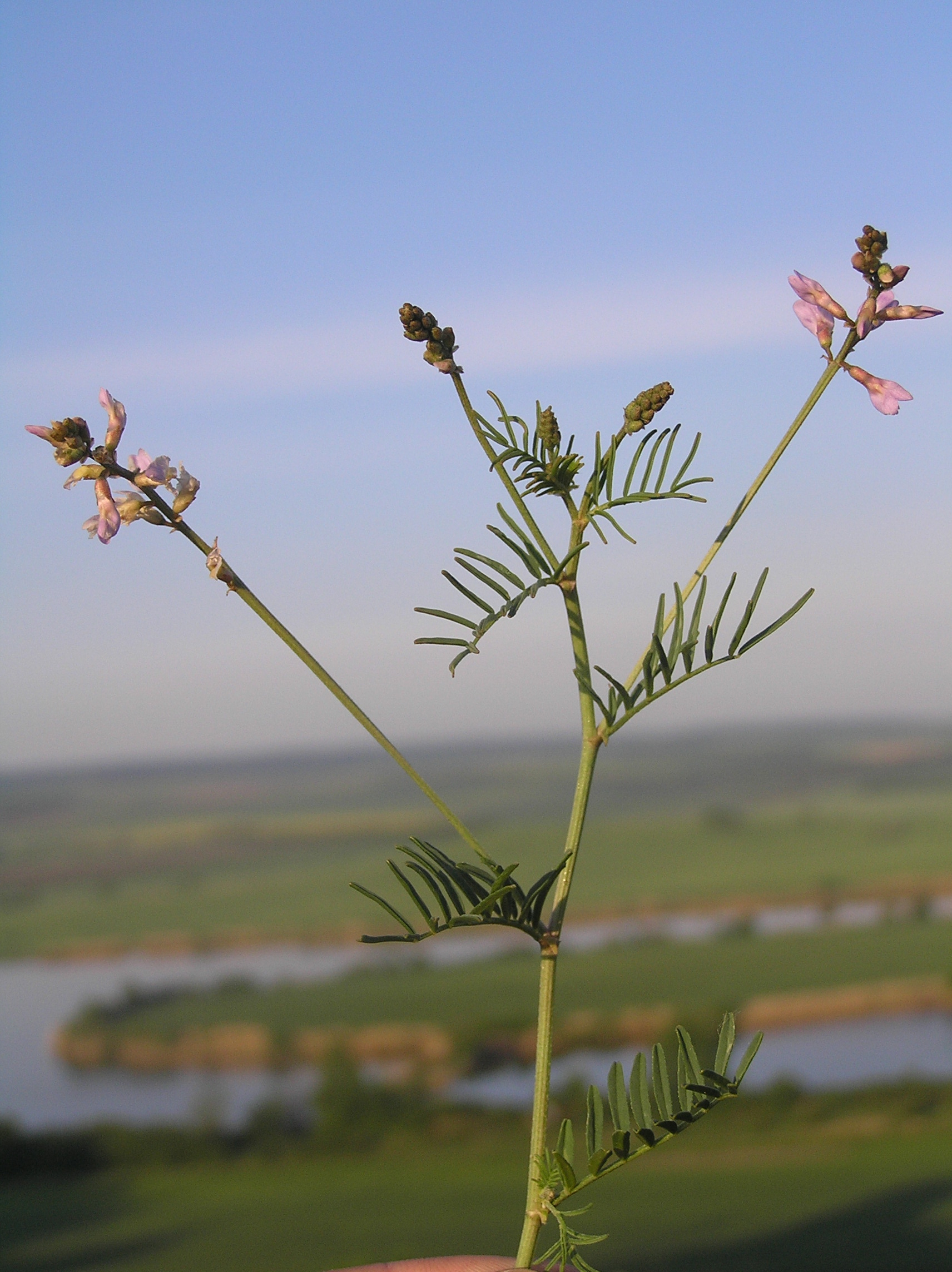 Astragalus austriacus, the hill Šibeničník near Mikulov, Southern Moravia, Czech Republic